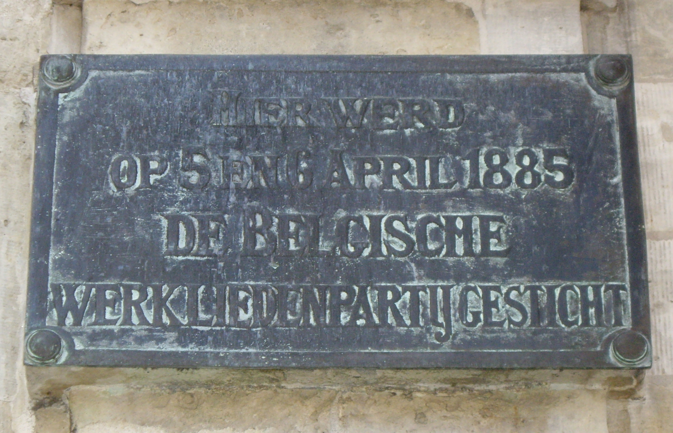 Plaque marking formation of Belgian Workers Party, Grand Place, Brussels